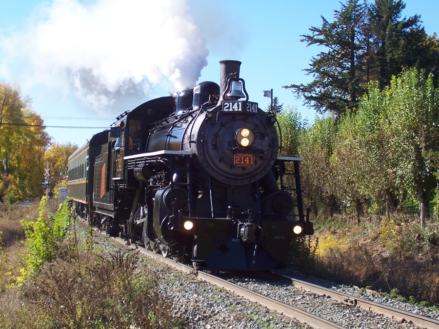 2141, Spirit of Kamloops entering Armstrong BC.